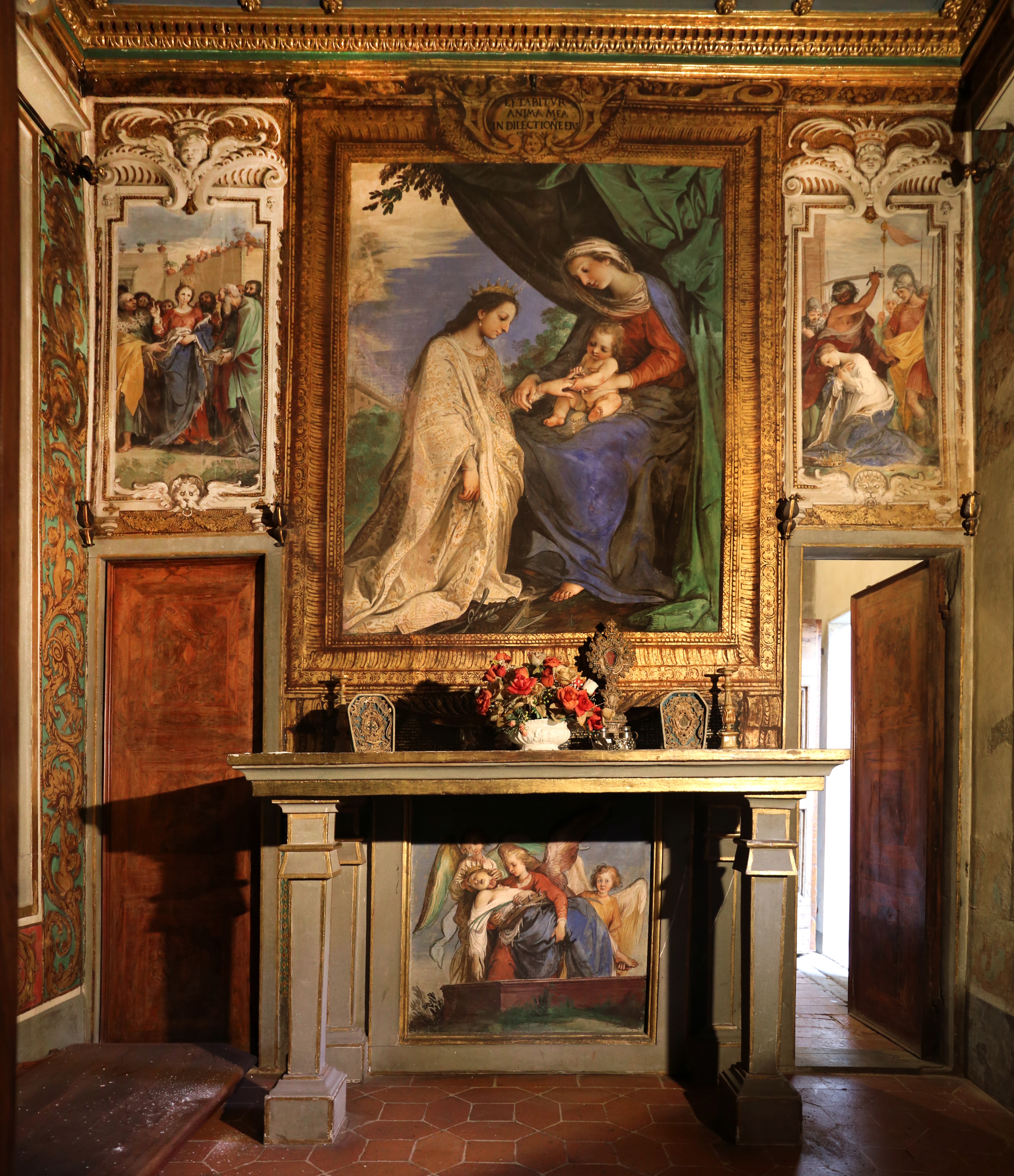 Palazzo Rospigliosi a Via del Duca (Pistoia) - Chapel by Giovanni da San Giovanni